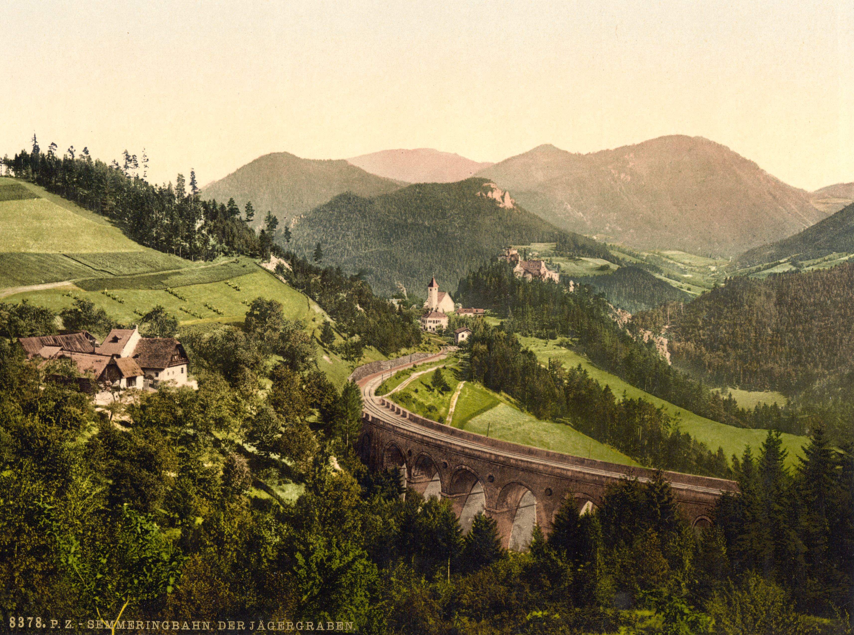 Semmering Railway with viaduct at the Jägergraben (more commonly known as Wagnergraben viaduct), Lower Austria (not Styria as noted in LoC image description!), Austro-Hungary